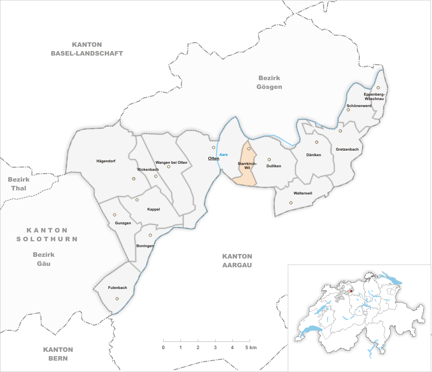 Municipality Starrkirch-Wil